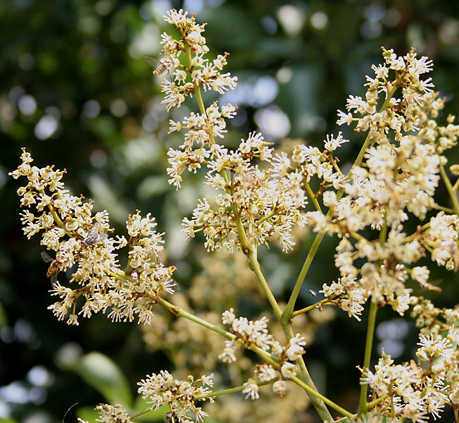 Lychee Litchi chinensis at Samsing in Darjeeling district of West Bengal, India.